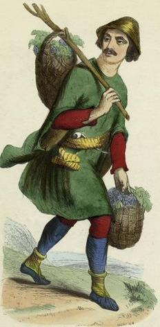 Mingrelian. Written on border: "Mingrelia, between Caucasus and the Black Sea."